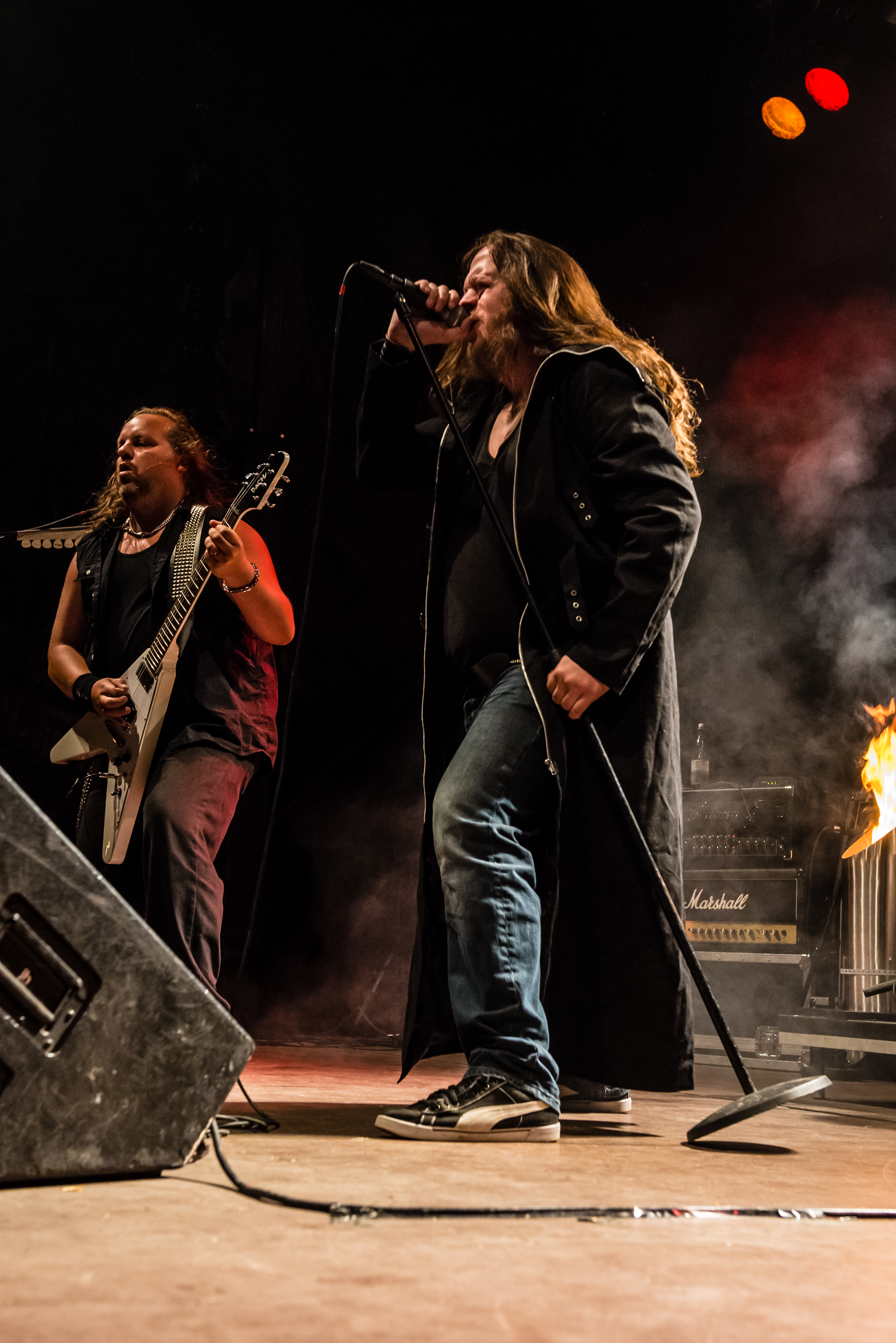 Metal band The Storyteller at music festival Hoforsrocken 2013.